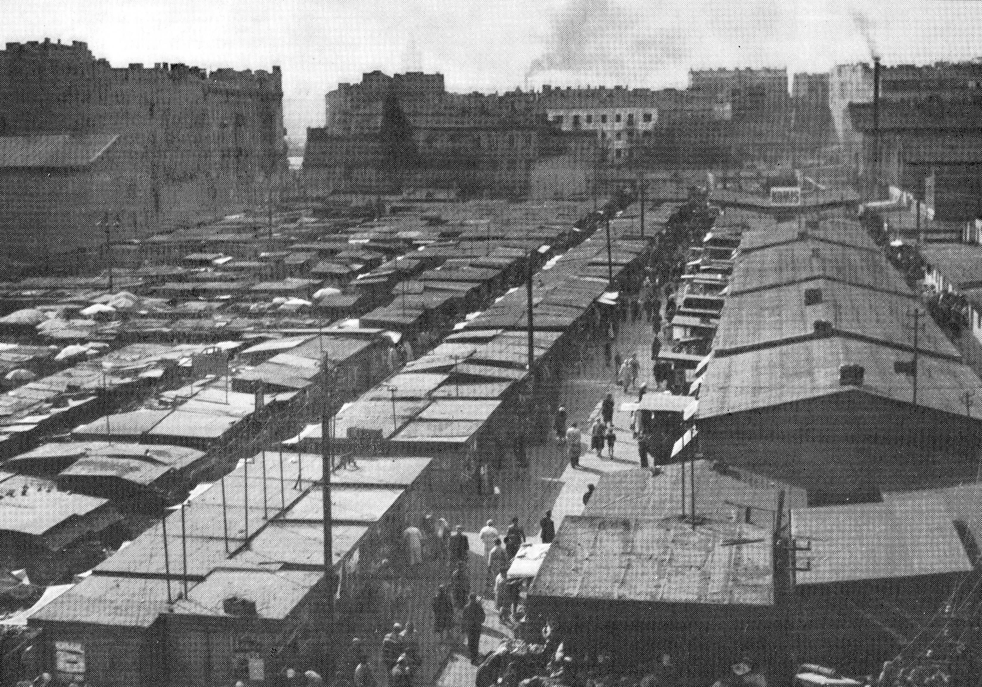 Różycki bazaar in Warsaw